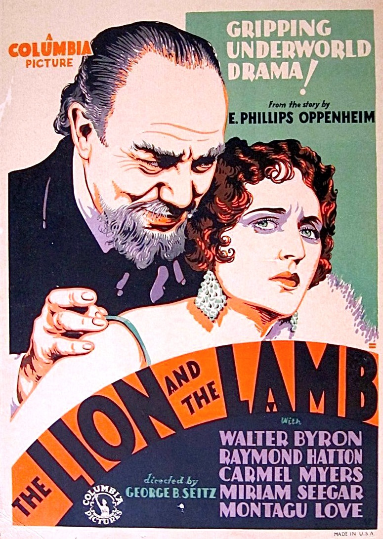 Window poster for the 1931 film The Lion and the Lamb.